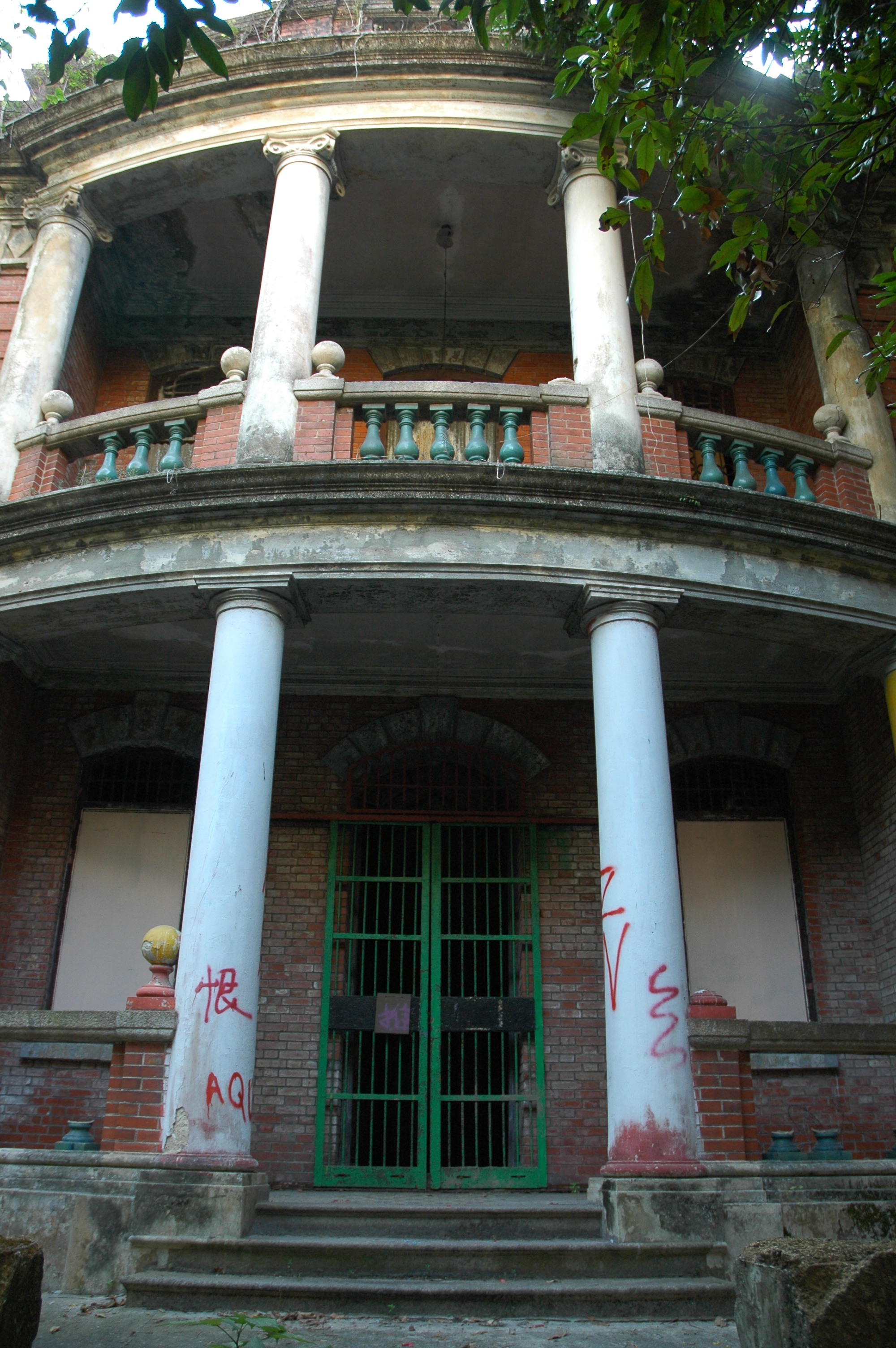 Nam Koo Terrace (Hong Kong) is also one of the more hidden classical Chinese mansions. It was built 90 years ago but subsequently abandoned. The rumor goes that the Japanese army used the mansion as quarters for “comfort women.” Ghostly proof was had several years ago, when a young girl came out of the house, supposedly possessed, and attacked the police officers who came by.